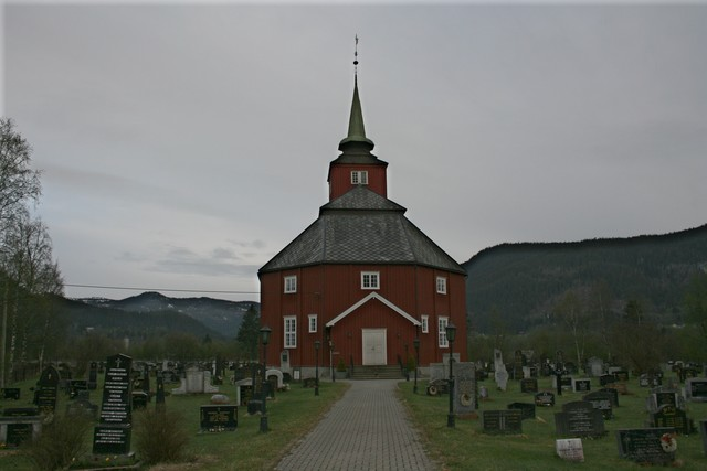 Støren church